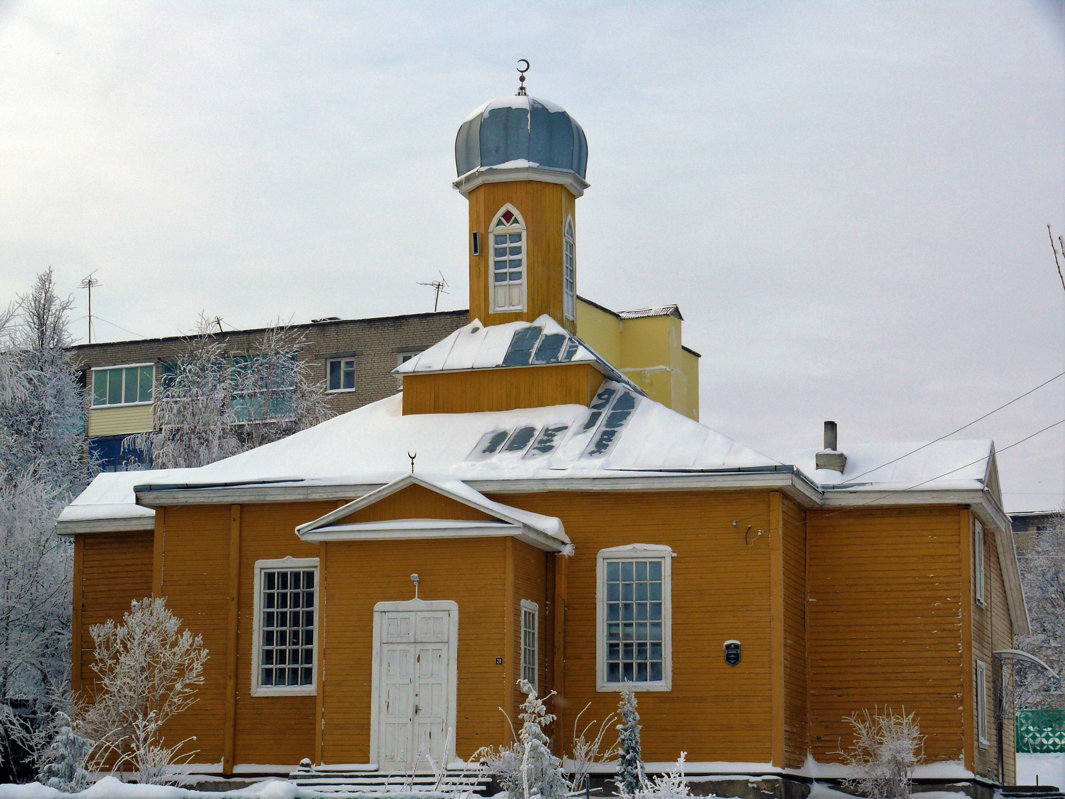 Tartar Wooden Mosque in Navahrudak, Belarus